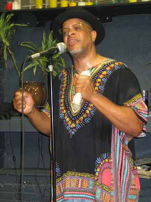 Portrait of Ashanti Alston